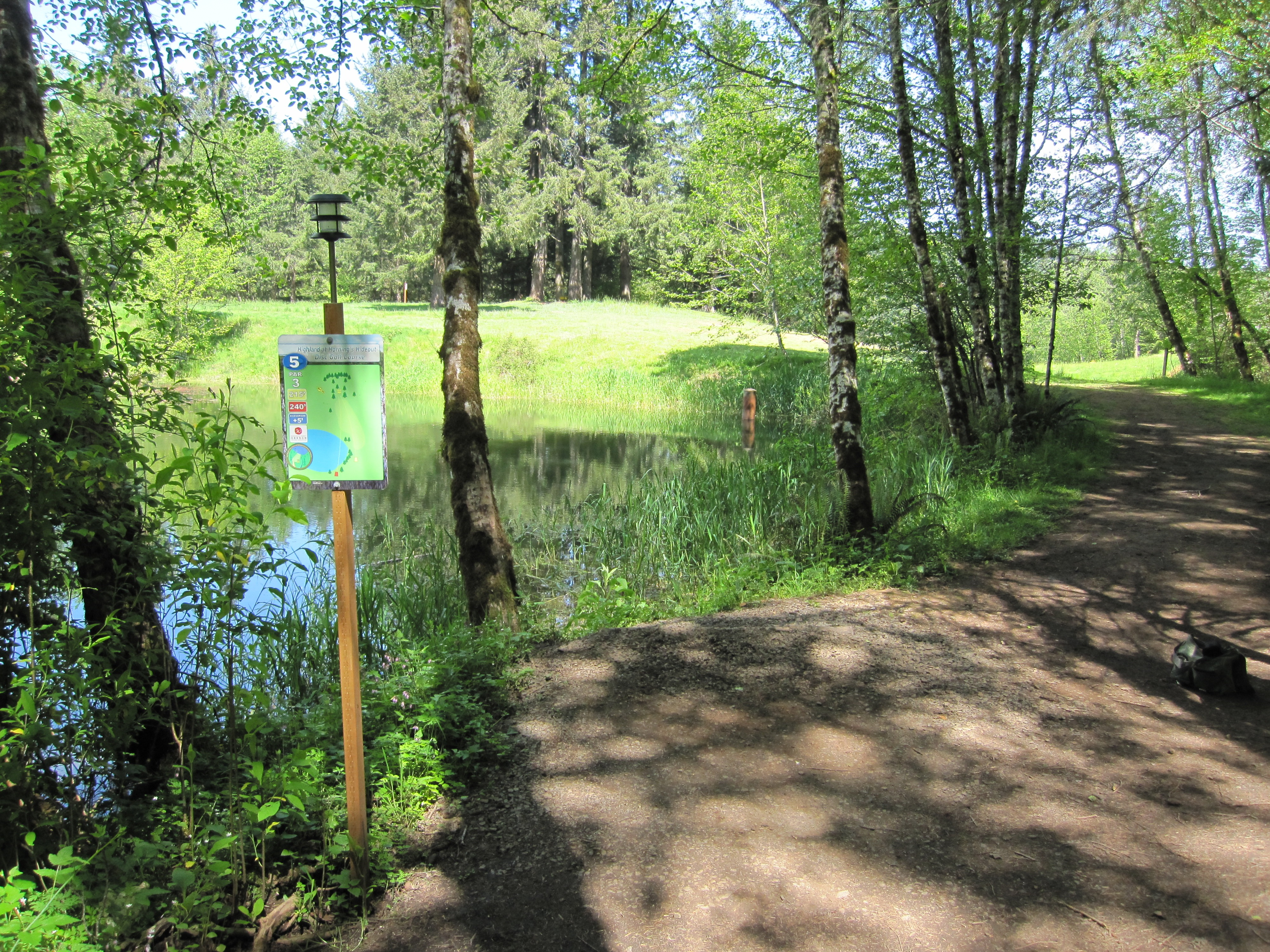 Water hazard on disc golf course.